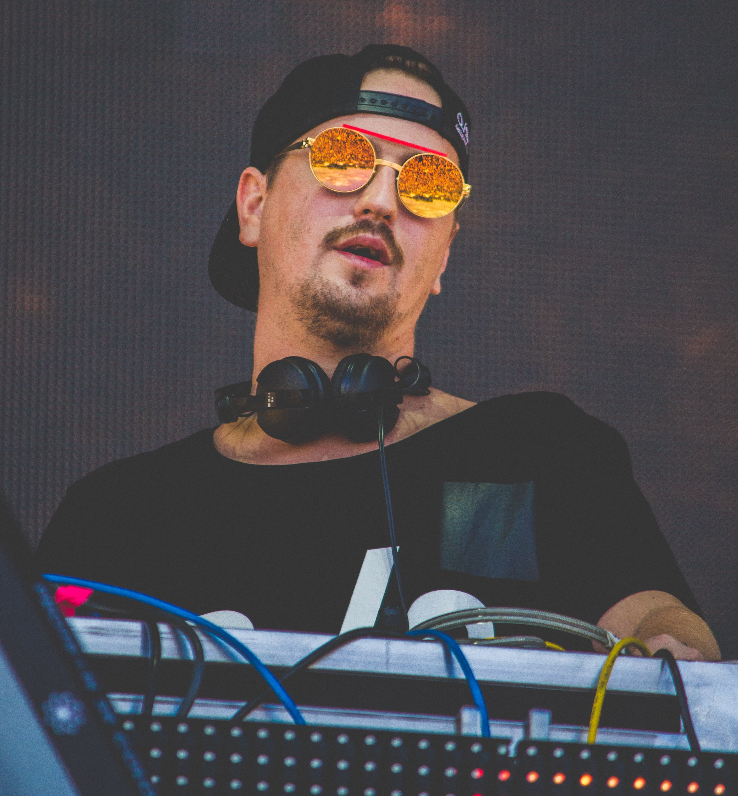 Robin Schulz performing in Veld 2017